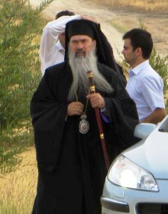 Archbishop of Tomis, Teodosie (Petrescu, born 1955), of the Romanian Orthodox Church, in September 2012 at the St. John Cassian monastery